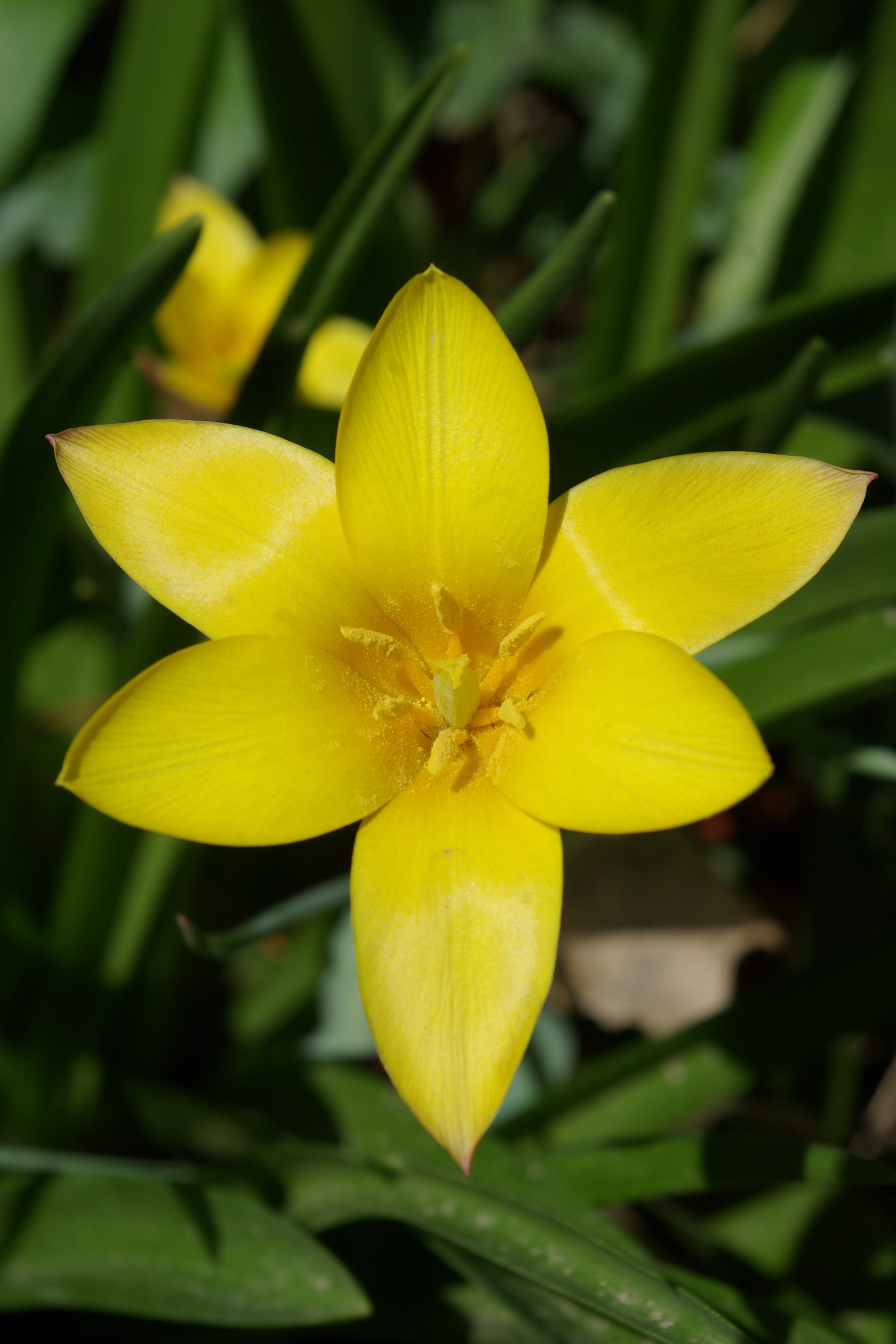 Fully open flower of Tulipa clusiana var. chrysantha in a garden